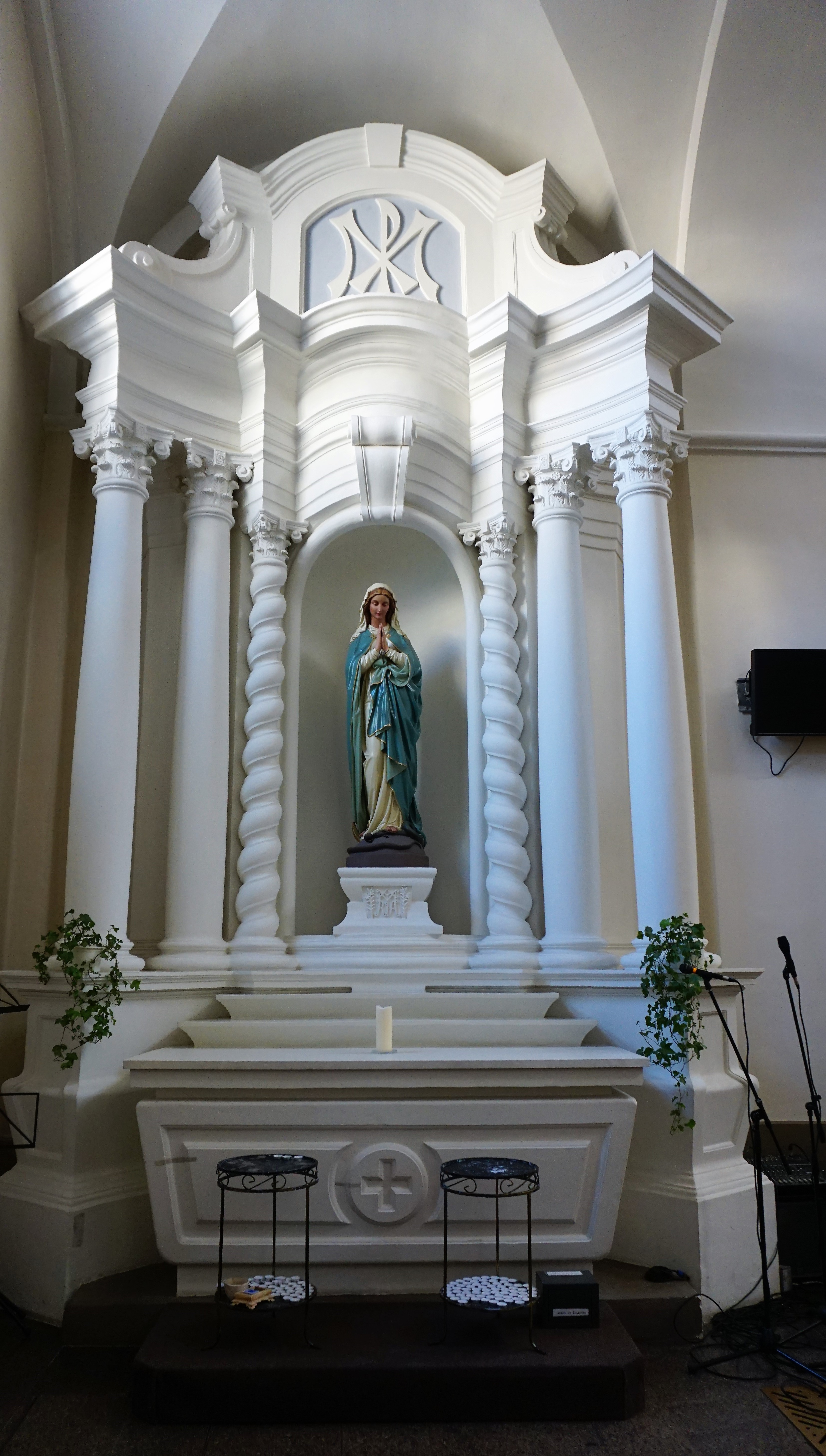 Altar dedicated to St. Maria of the Church of St. Francis Xavier, Kaunas